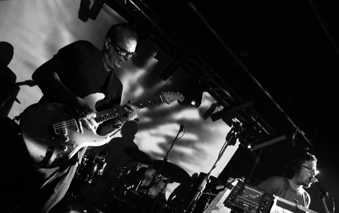 Butthole Surfers, Bezsennosc, Wroclaw, 19.04.2009